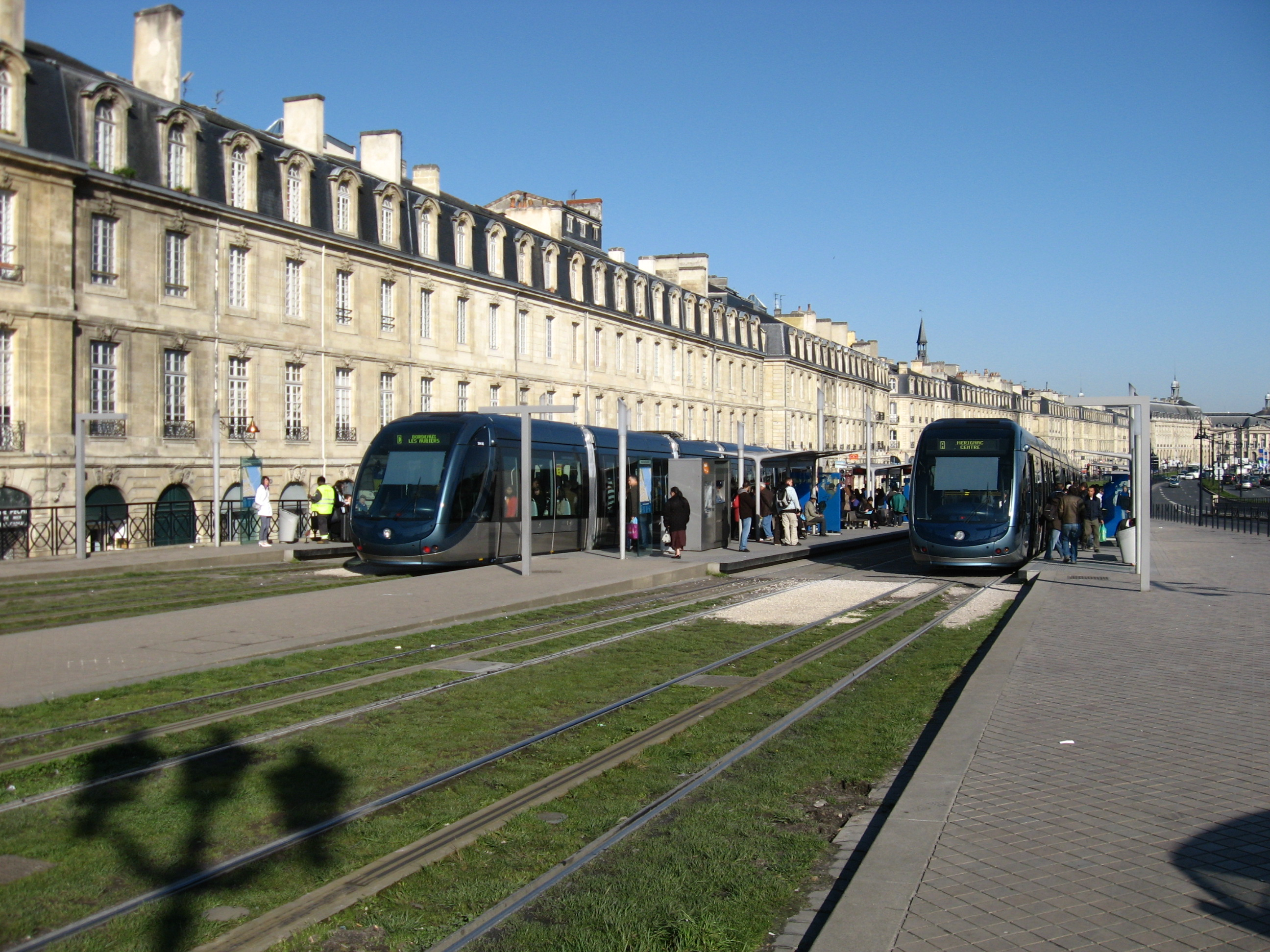 Trams crossing on the quai Richelieu